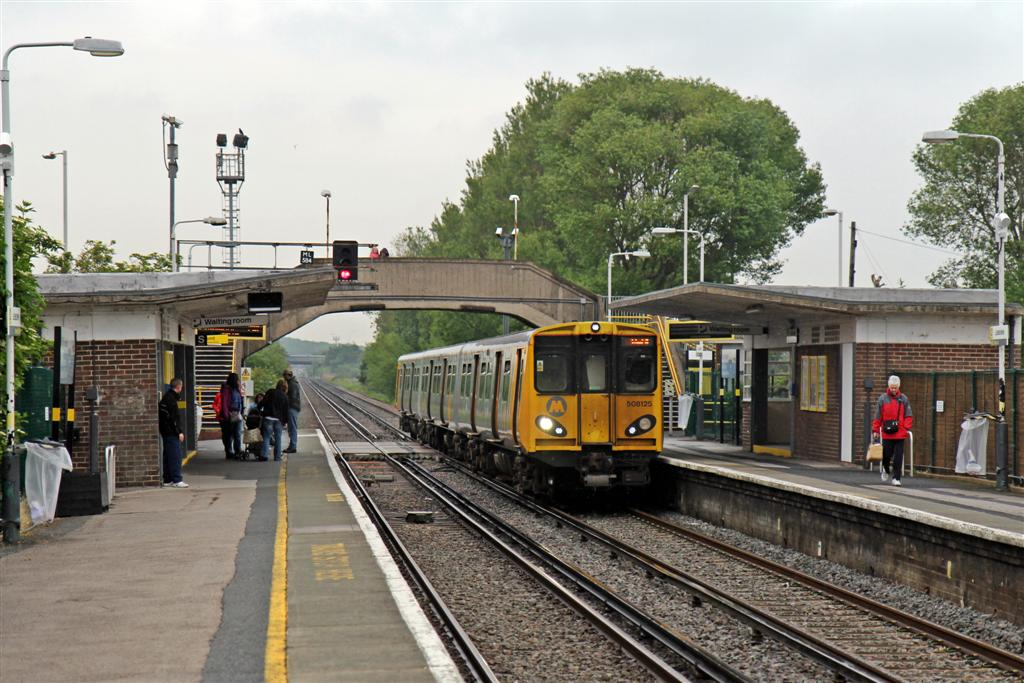 West Kirby-bound train, Leasowe Railway Station